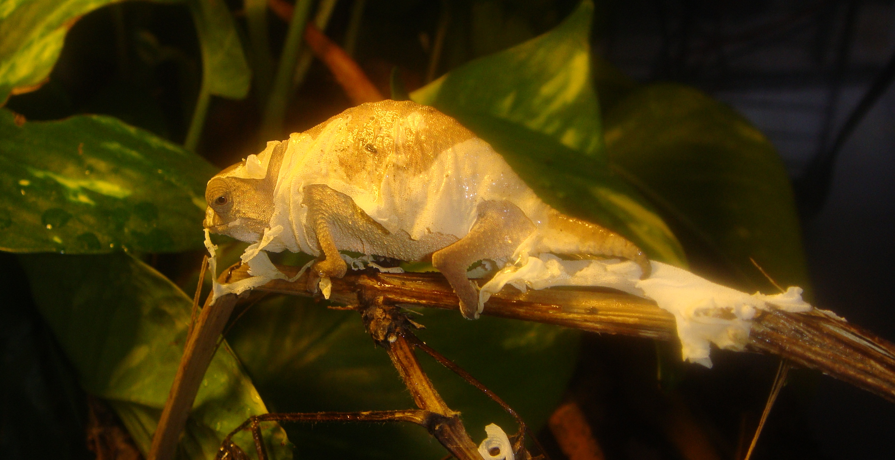 A Rhampholeon temporalis, a chameleon. It is shedding.